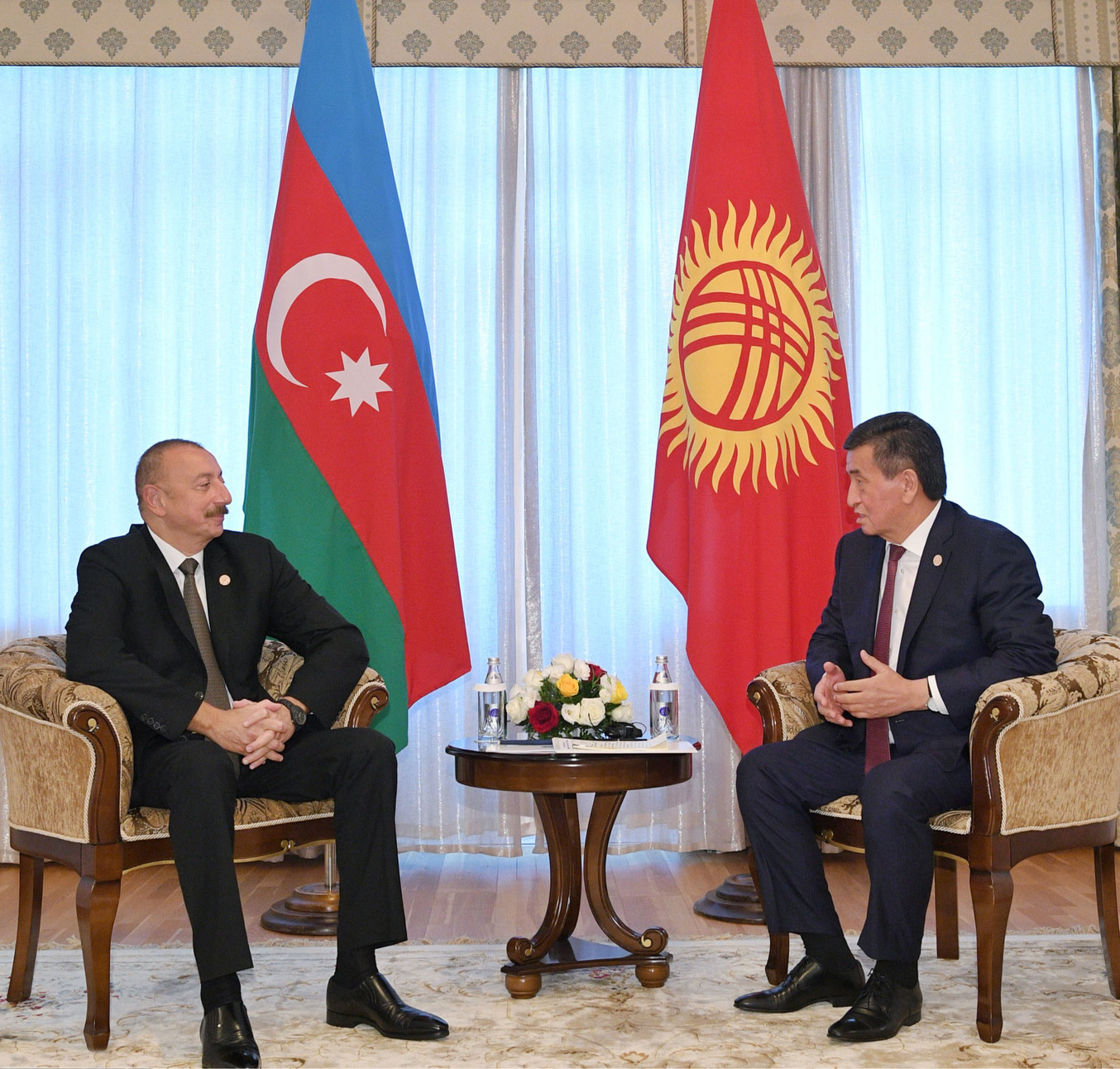 Ilham Aliyev met with Kyrgyzian President Sooronbay Jeenbekov